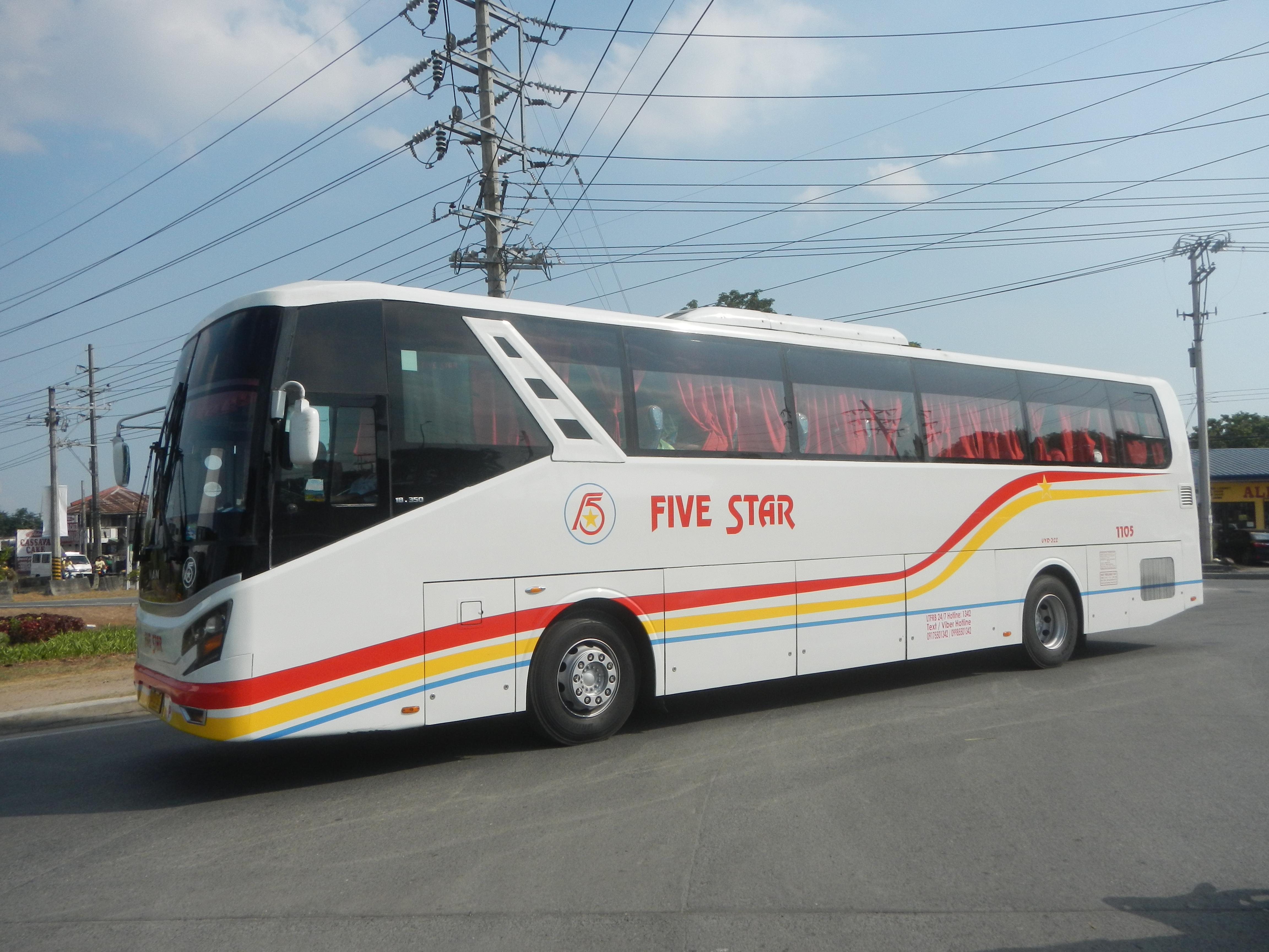 North Luzon Expressway Angeles NLEx Exit (Trumpet Roundabout, Formerly Parclo Interchange, Pulung Maragul Circle, Angeles City, Pampanga) Barangay Pulung Maragul 15°9'45"N 120°36'36"E beside Pandan, Angeles Pandan 15°9'4"N 120°36'19"E Angeles City, Pampanga along Magalang Road towards MacArthur Highway or Manila North Road from the Lazatin Flyover (San Fernando, Pampanga), Radial Road 9 (Note: Judge Florentino Floro, the owner, to repeat, Donor Florentino Floro of all these photos hereby donate gratuitously, freely and unconditionally all these photos to and for Wikimedia Commons, exclusively, for public use of the public domain, and again without any condition whatsoever).